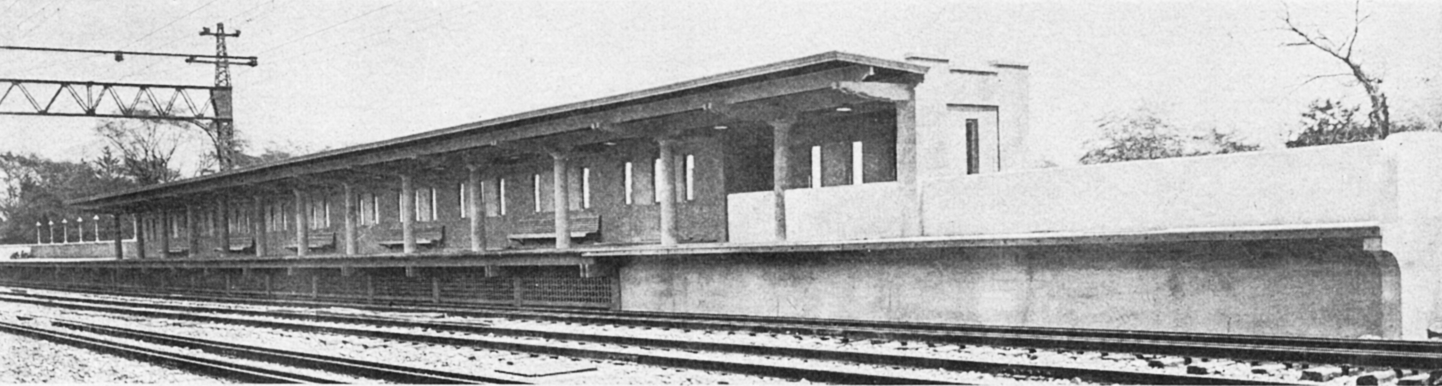 Typical station platform on the New York, Westchester and Boston Railway.